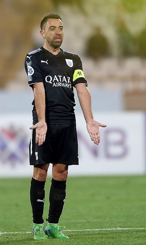 Xavi in Persepolis and Al sadd Match (Azadi-Tehran)